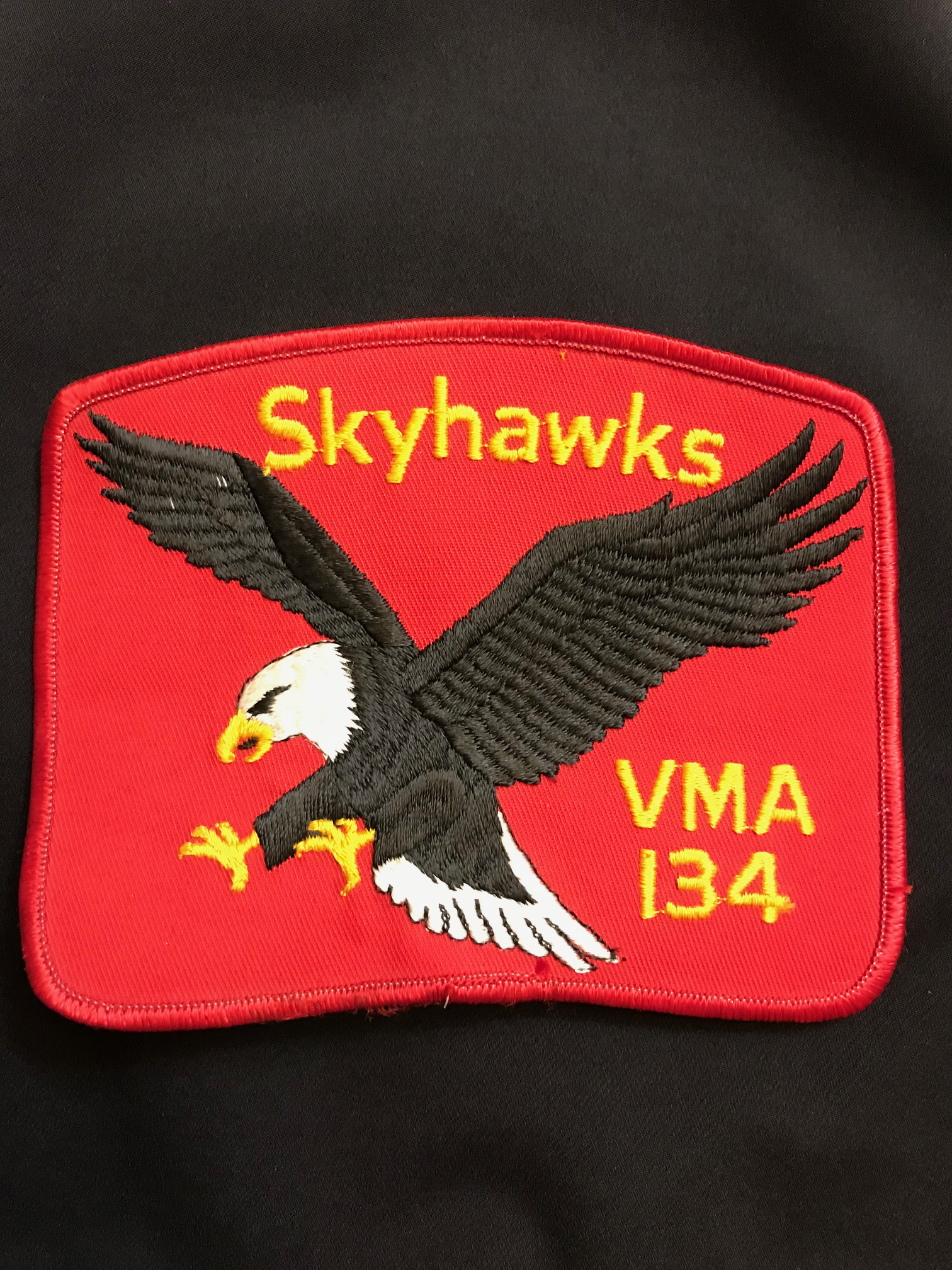 VMA-134 Skyhawks Shoulder Patch